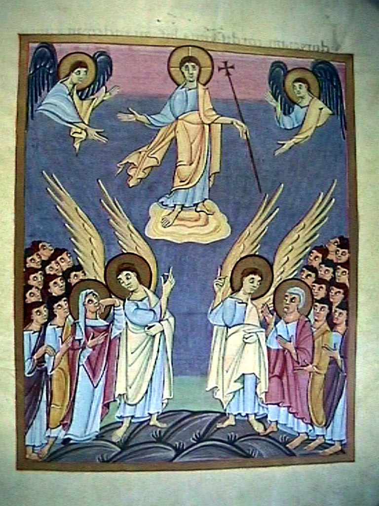 A page from the Bamberg Apocalypse The Ascension